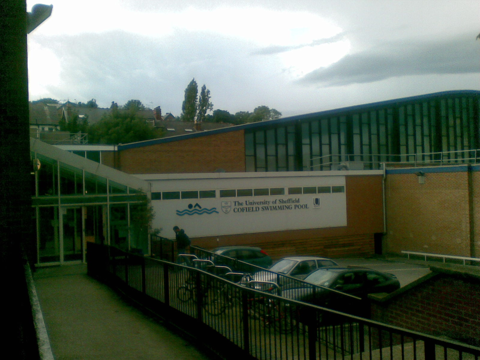 Photograph of the Goodwin Fitness Centre (S10 Health) and Cofield Swimming pool